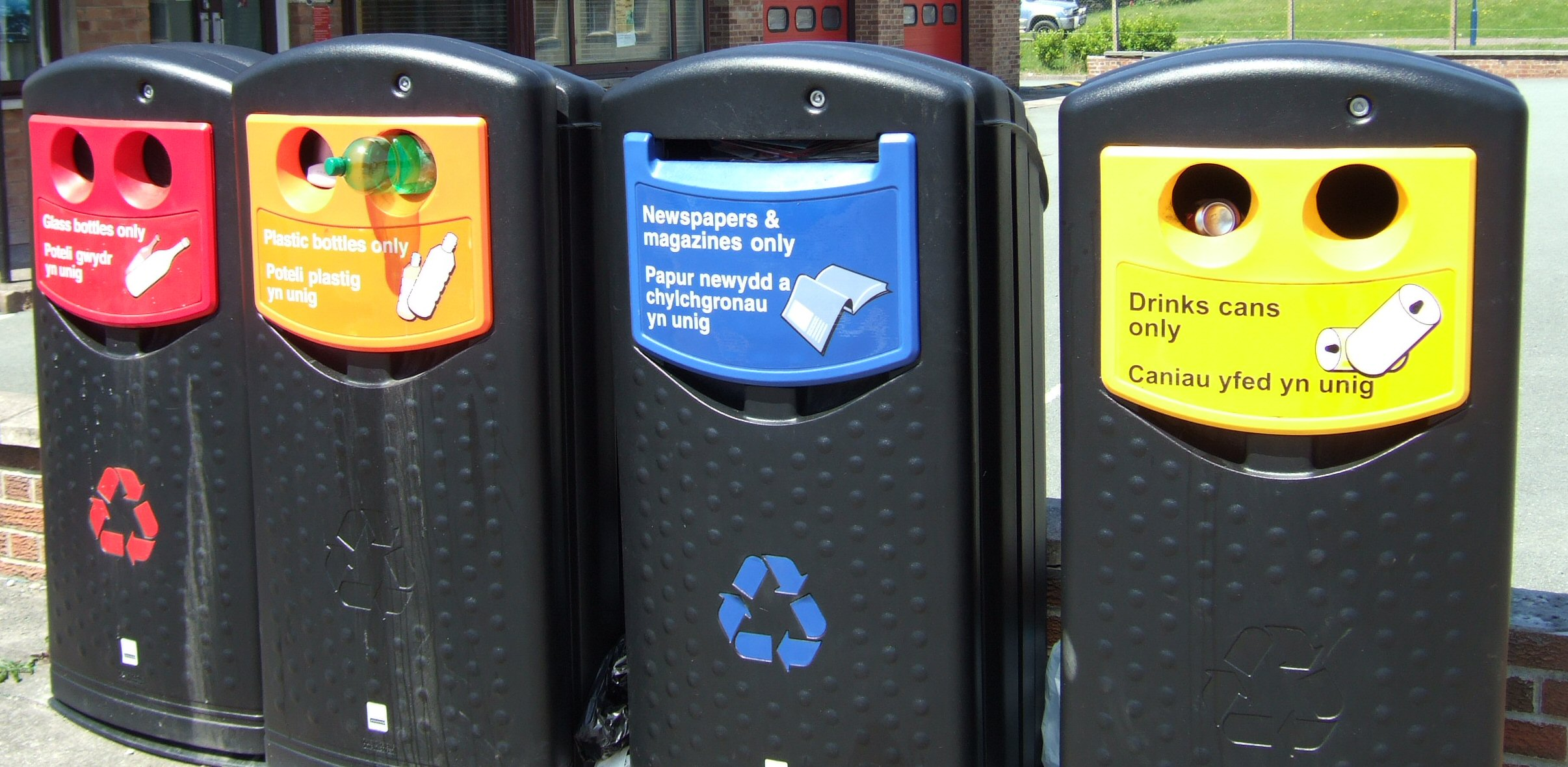 Recycling bins in Aberystwyth, Wales